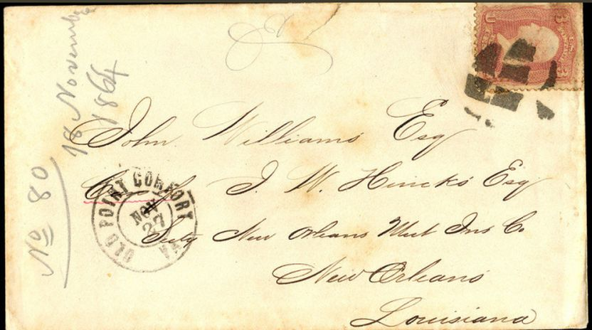 US mail, Inspector's manuscript, 1864, with 1863 Washington 3-cent tied. Civil War Flag of Truce mail.